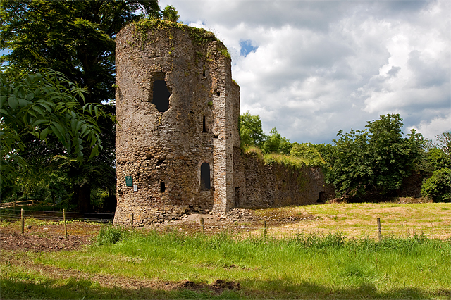 Castles of Munster: Kilbolane, Cork The west corner tower of Kilbolane seen here with its curtain wall adjoining the hidden south corner tower, is all that remains of the original 13c castle.